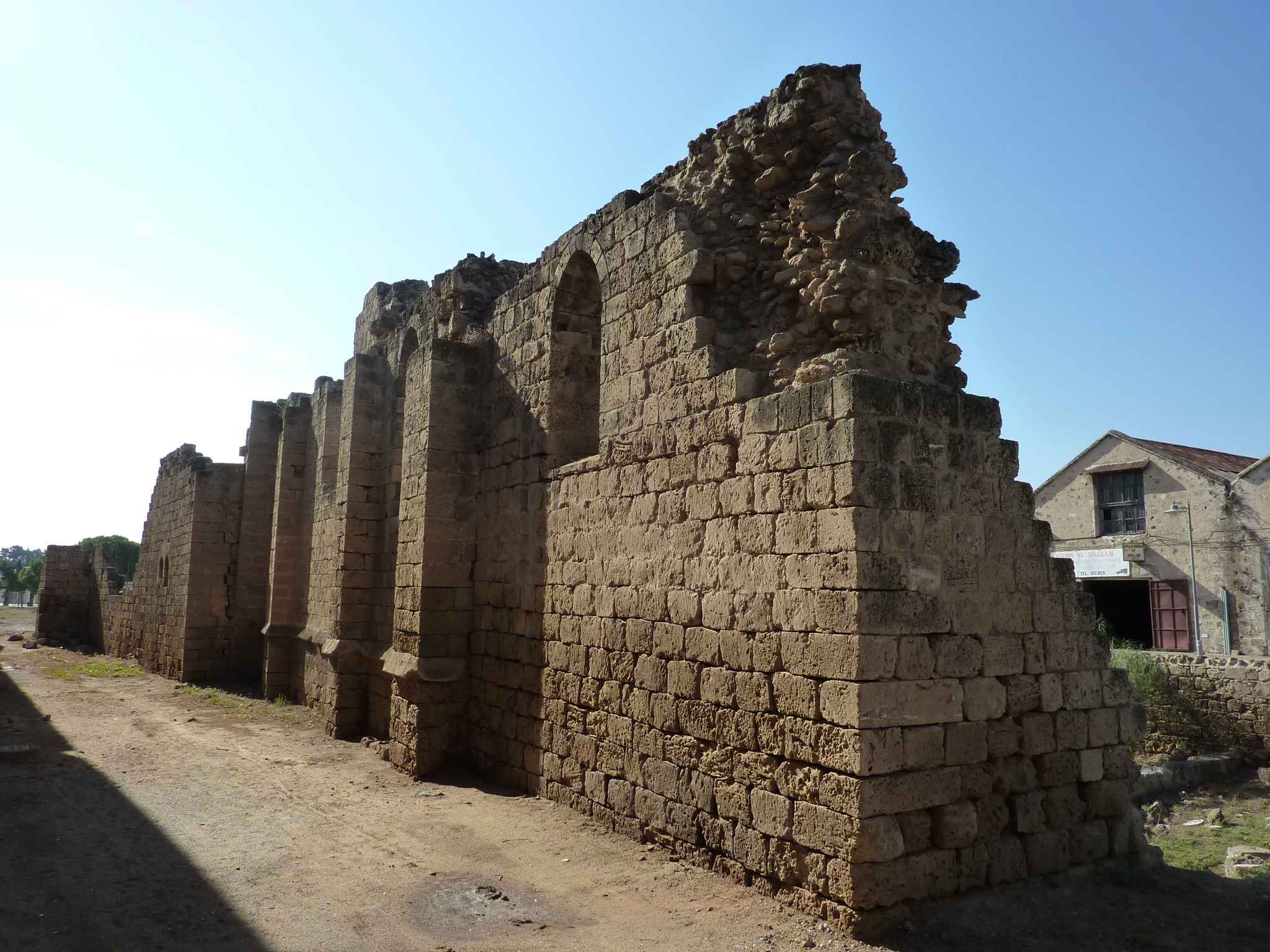 St. Anthony church and hospital, Famagusta